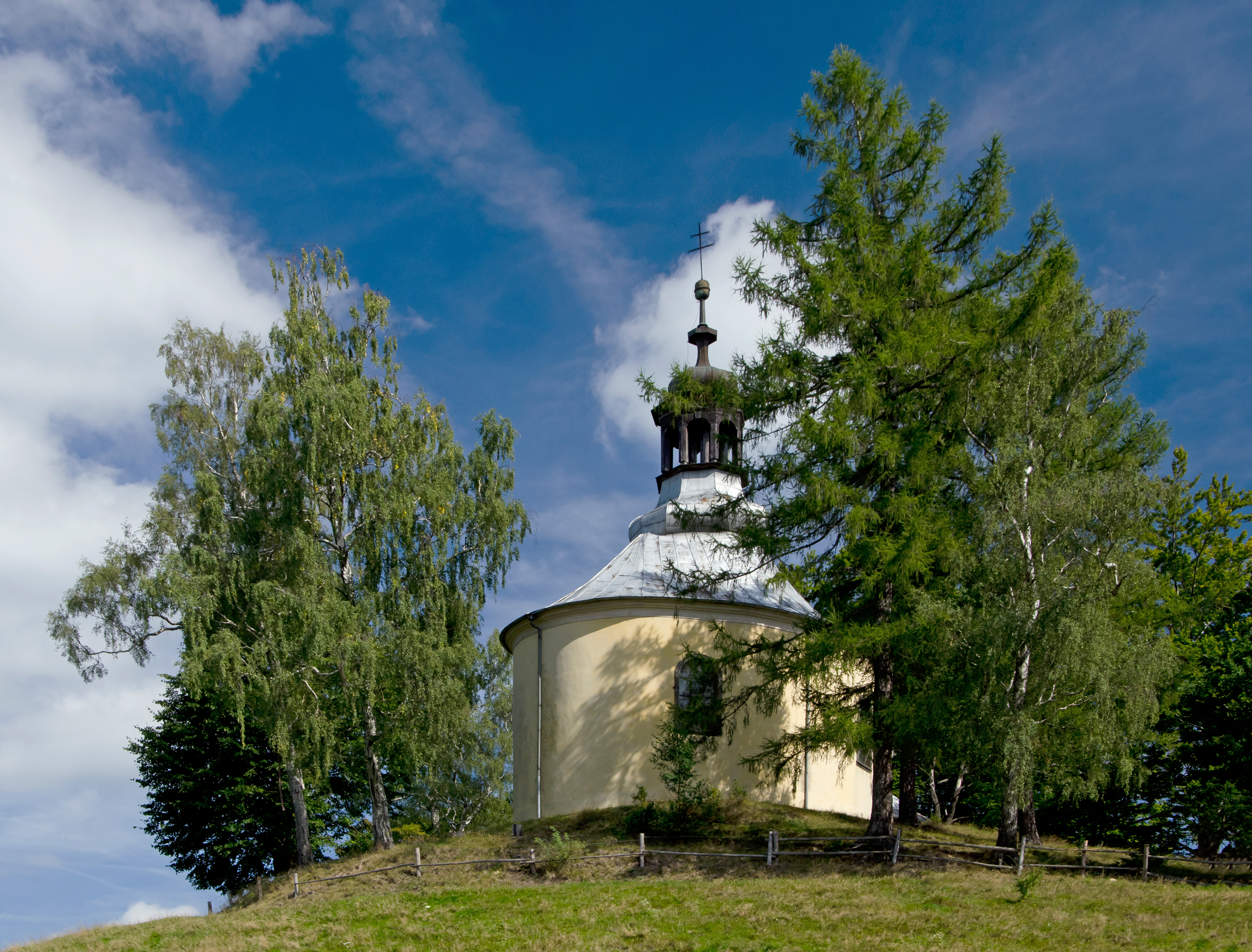 Chapel of St. Anne. Kowary. Poland